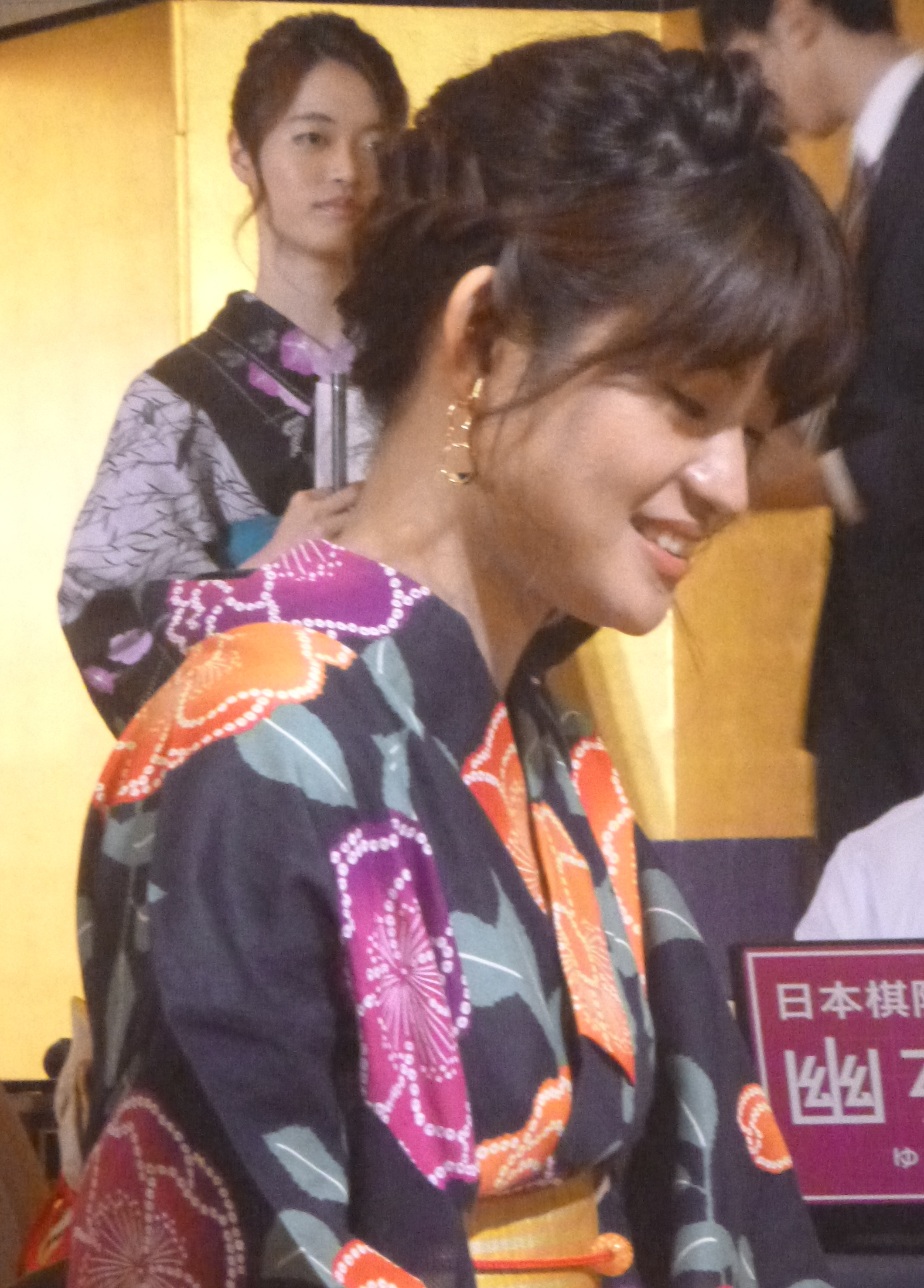 Japanese go player Rina Fujisawa at the exhibition match of Hankyū Nōryō Go Festival in Minato, Tokyo, Japan.